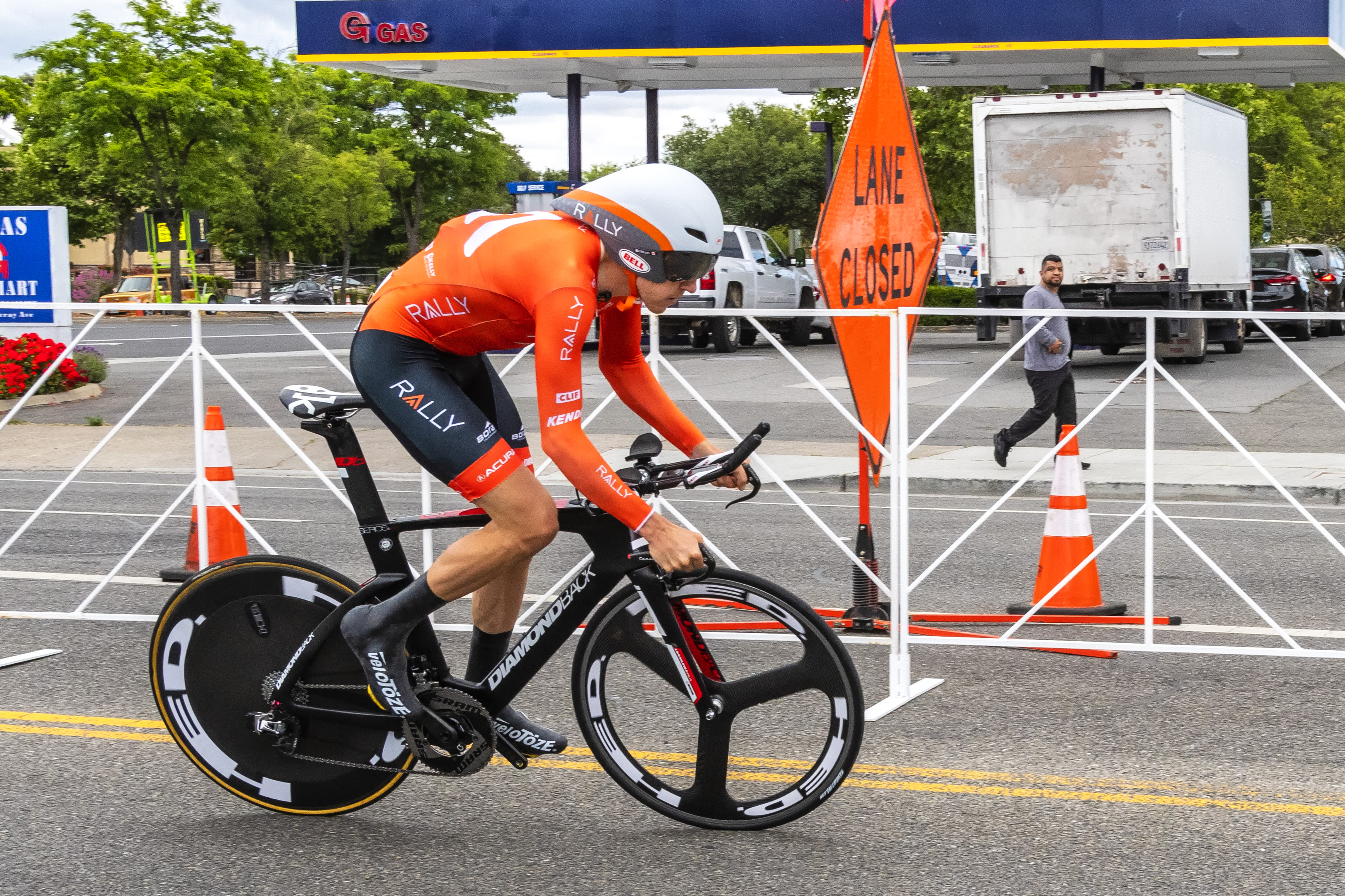 Amgen Tour of California 2018 Stage 4 Time Trial in Morgan Hill UCI World Tour